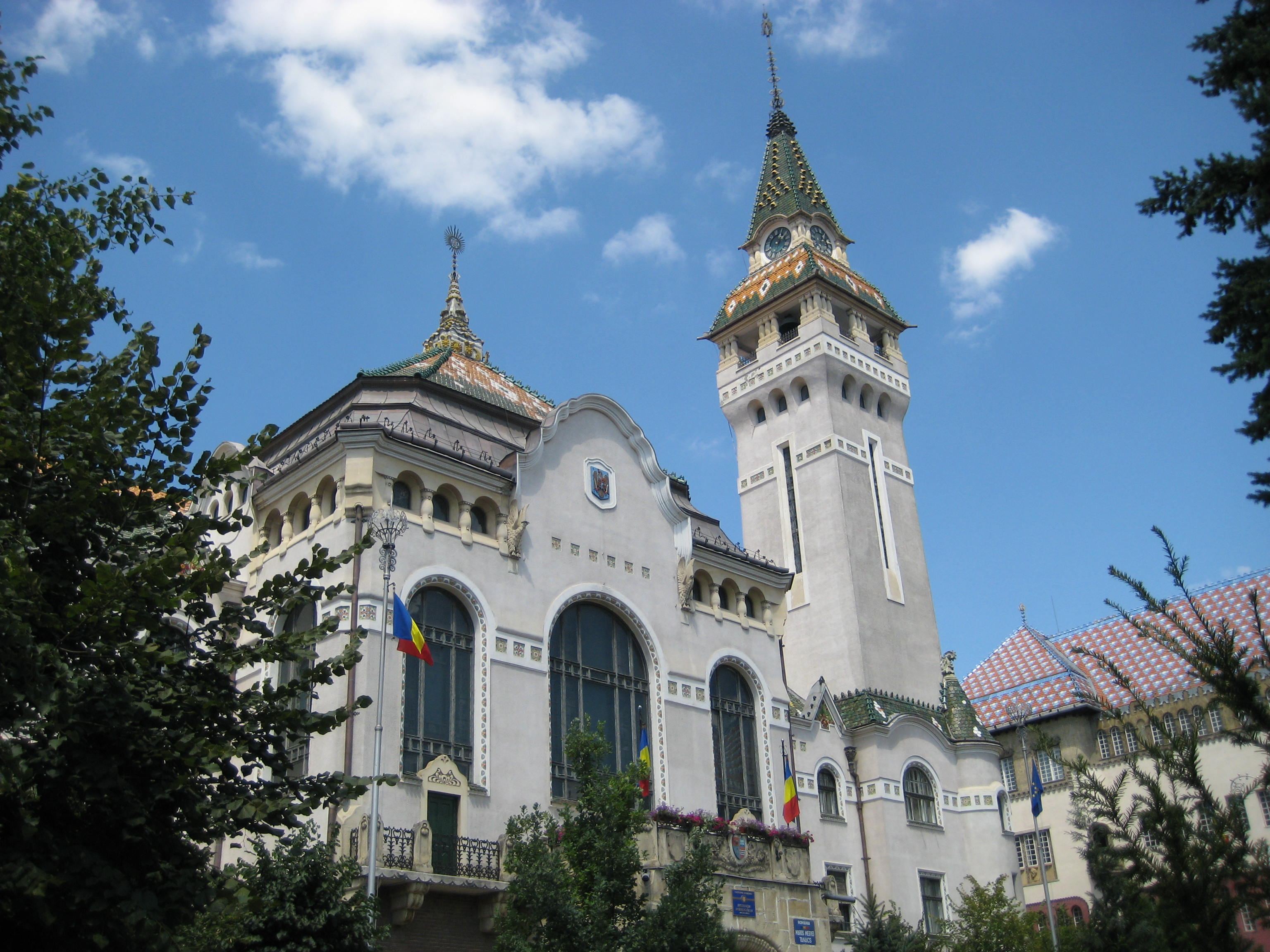 Mures County Prefecture